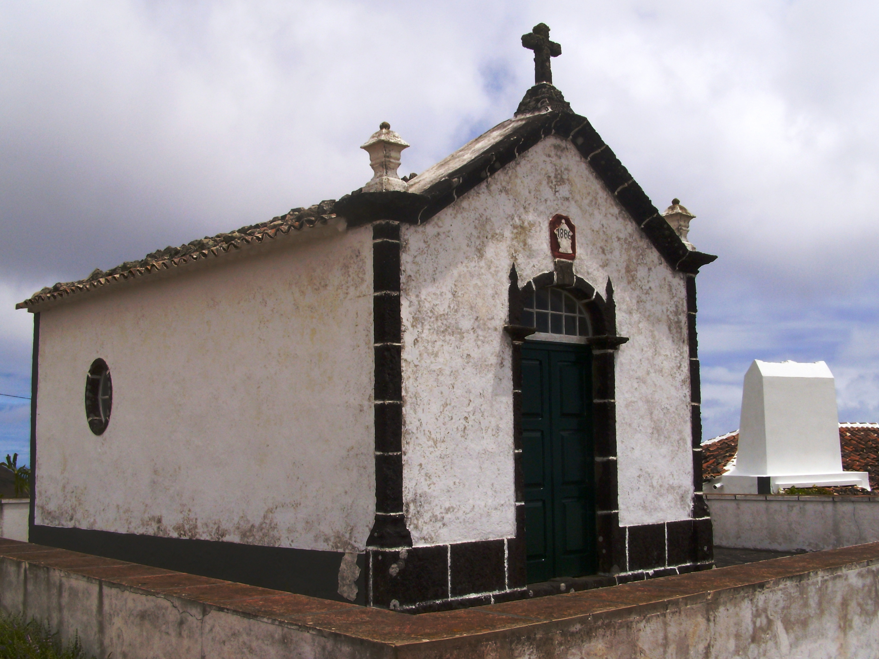 The Hermitage of Nossa Senhora da Boa Morte, civil parish of Santo Espírito, municipality of Porto (Azores), Portugal